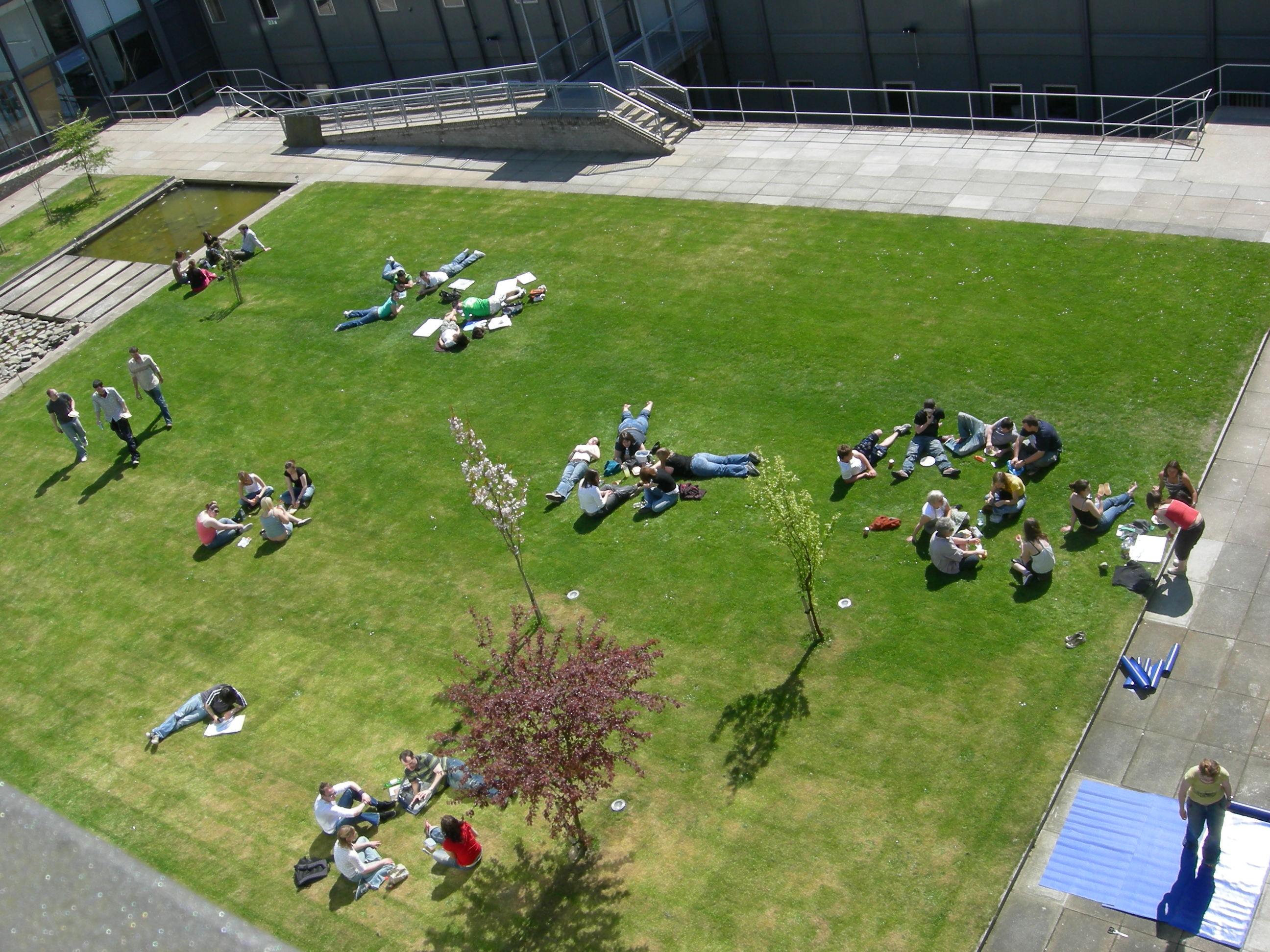 Author: Fraser Denholm. Category:Aberdeen